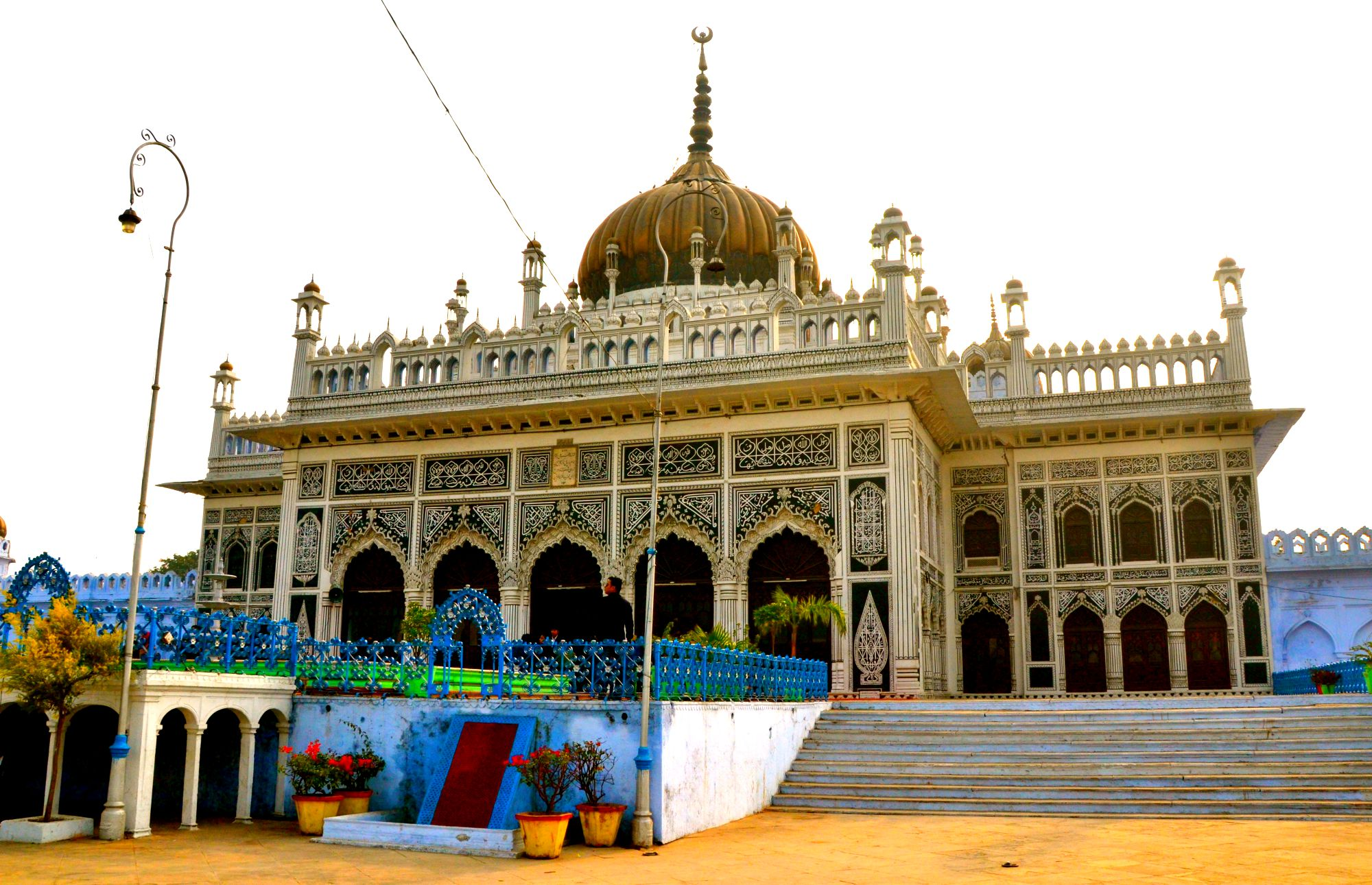 Chota Imambada is located in Lucknow, Uttar Pradesh. It is also called Hussainabad Imambara. It was constructed in 1838.